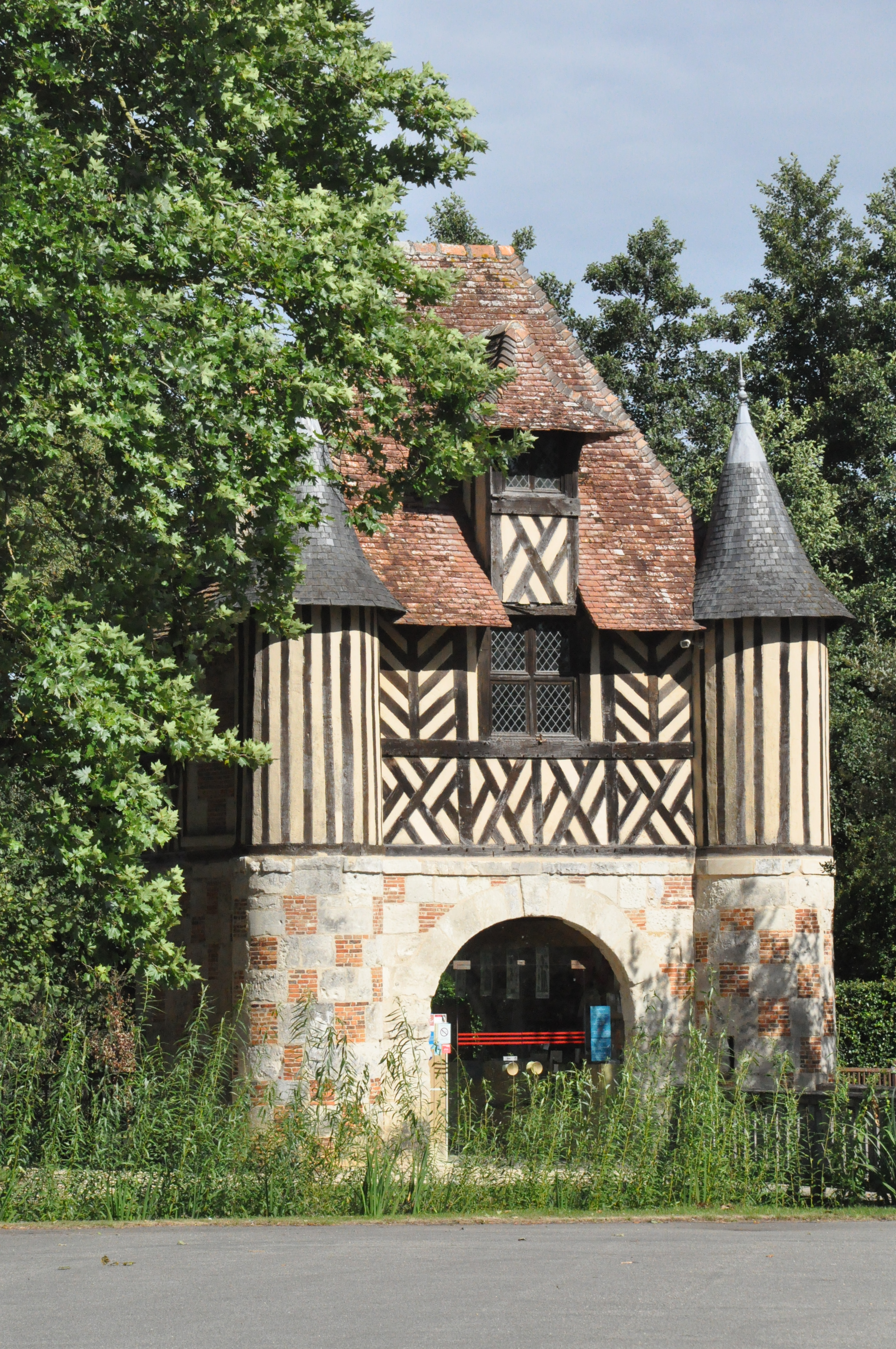 Castle of Crèvecoeur (France, Normandy)